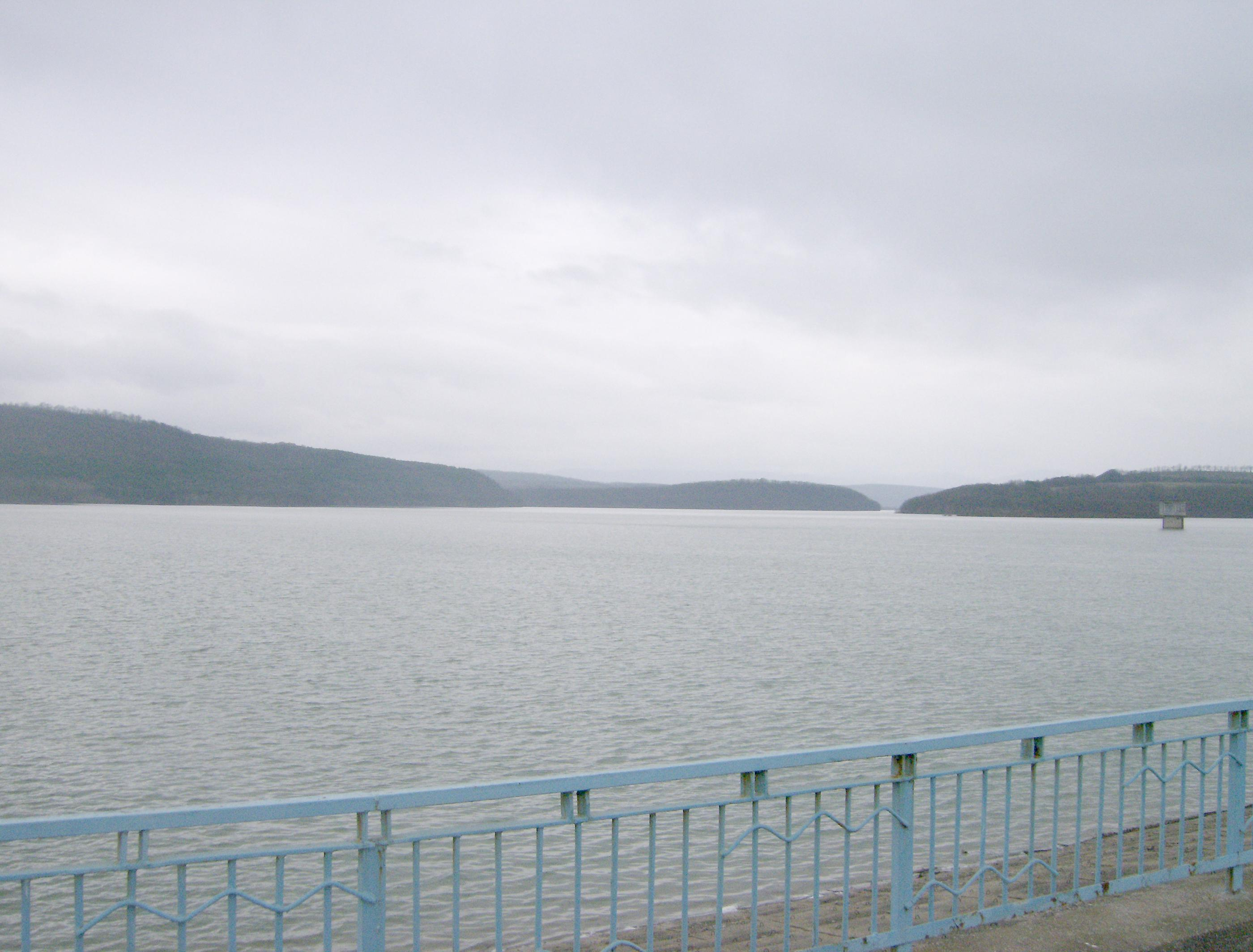 Ticha Dam